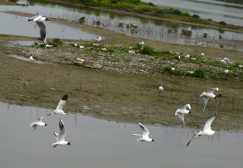 Taken at RSPB Minsmere. A flock of nesting Black-headed Gulls (Chroicocephalus ridibundus) and an Avocet (Recurvirostra avosetta) mob a Lesser Black-backed Gull (Larus fuscus) that gets too close. Site: Blog: Forum